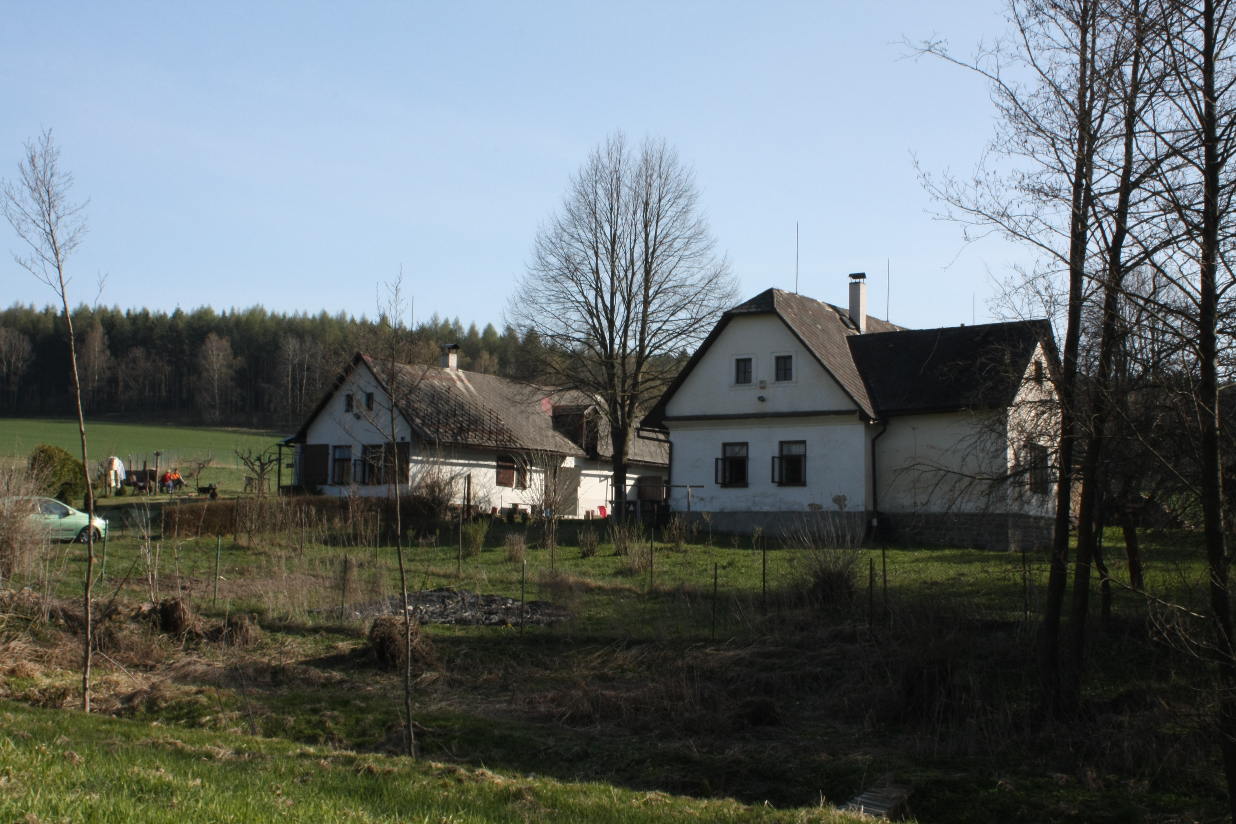 Loukov, Havlíčkův Brod District, Czech Republic Object location49° 37′ 43.21″ N, 15° 20′ 41.32″ E